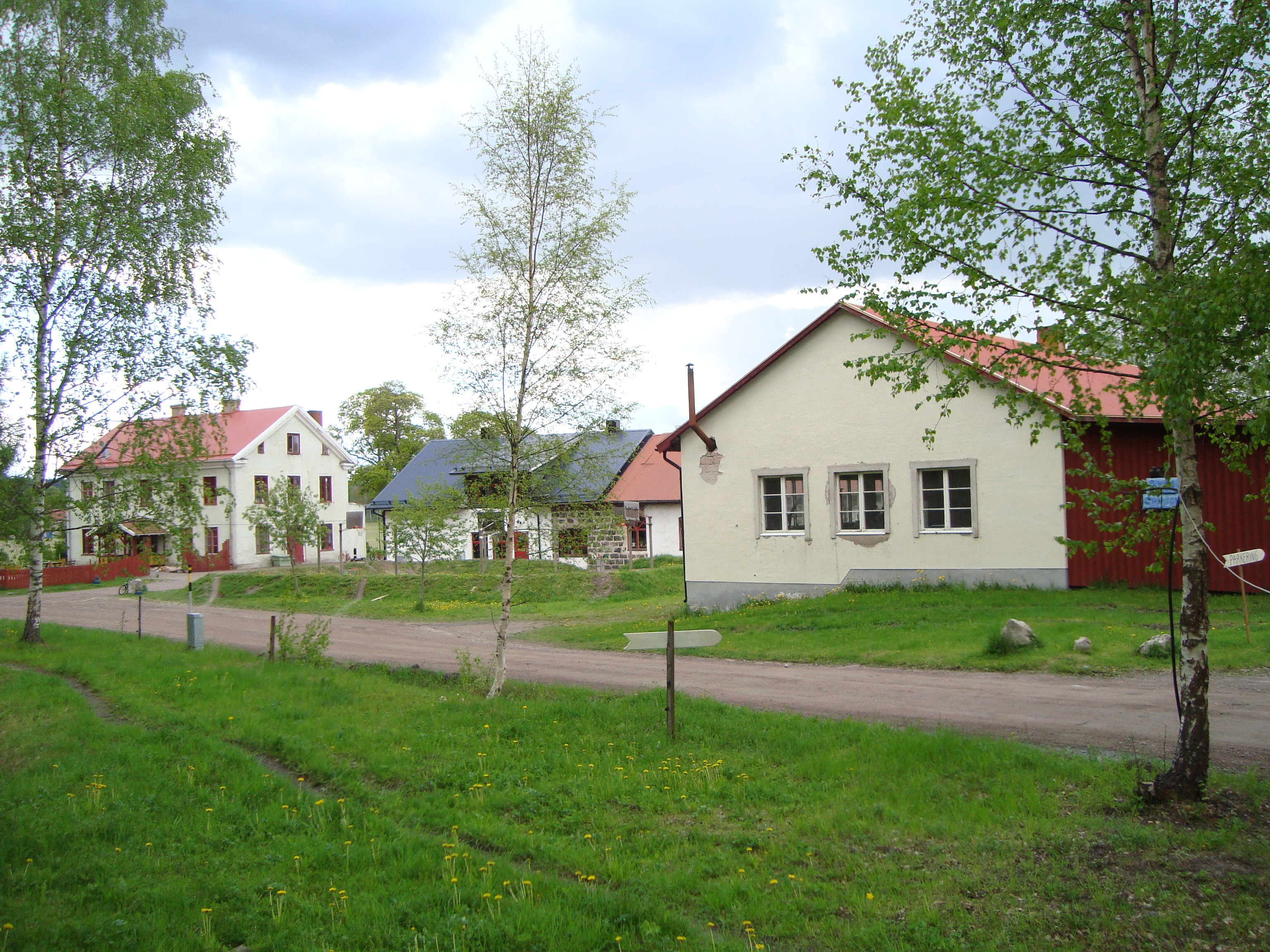 Annaskolan, Dormsjö, Hedemora municipality, Sweden